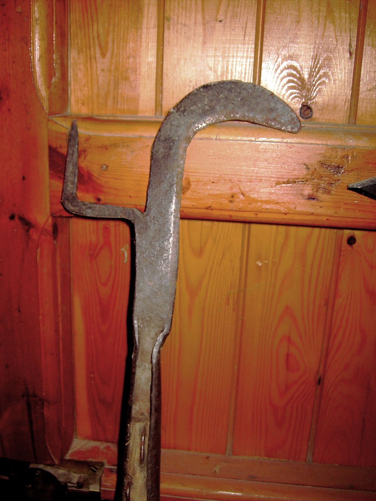 Un Dallabarzas o Falzón dallabarzas, herramienta para seccionar la maleza por la base y así poderla arrancar. Aragonés: Un Dallabarzas.